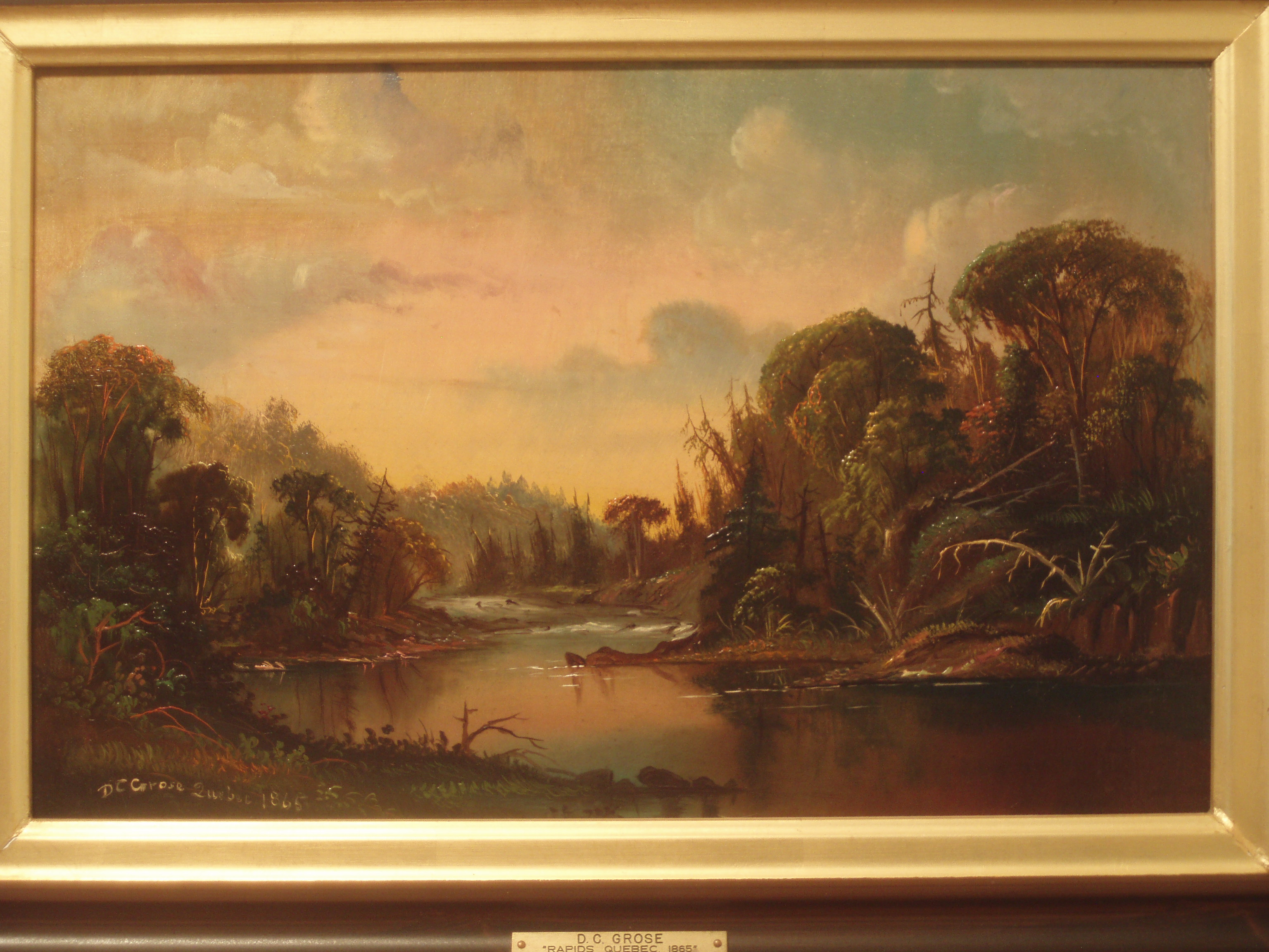 DC Grose: Quebec Rapids - 1865